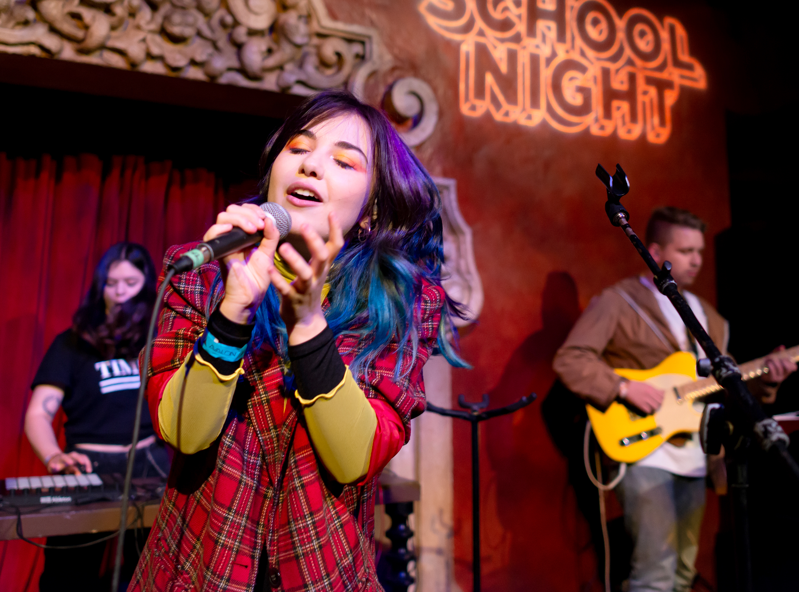 EZI performing live at School Night at Bardot Hollywood in Los Angeles California on Monday, April 2, 2018.